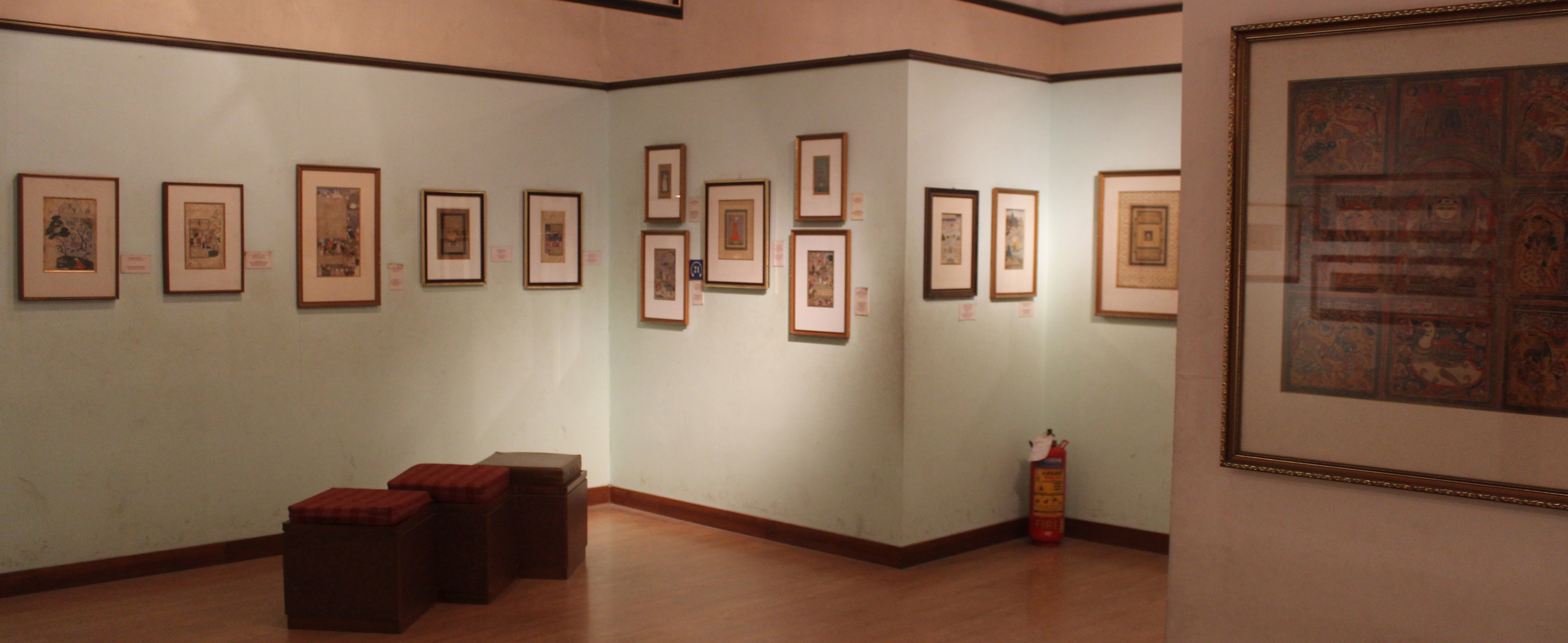 A view of the Mughal Miniature Paintings